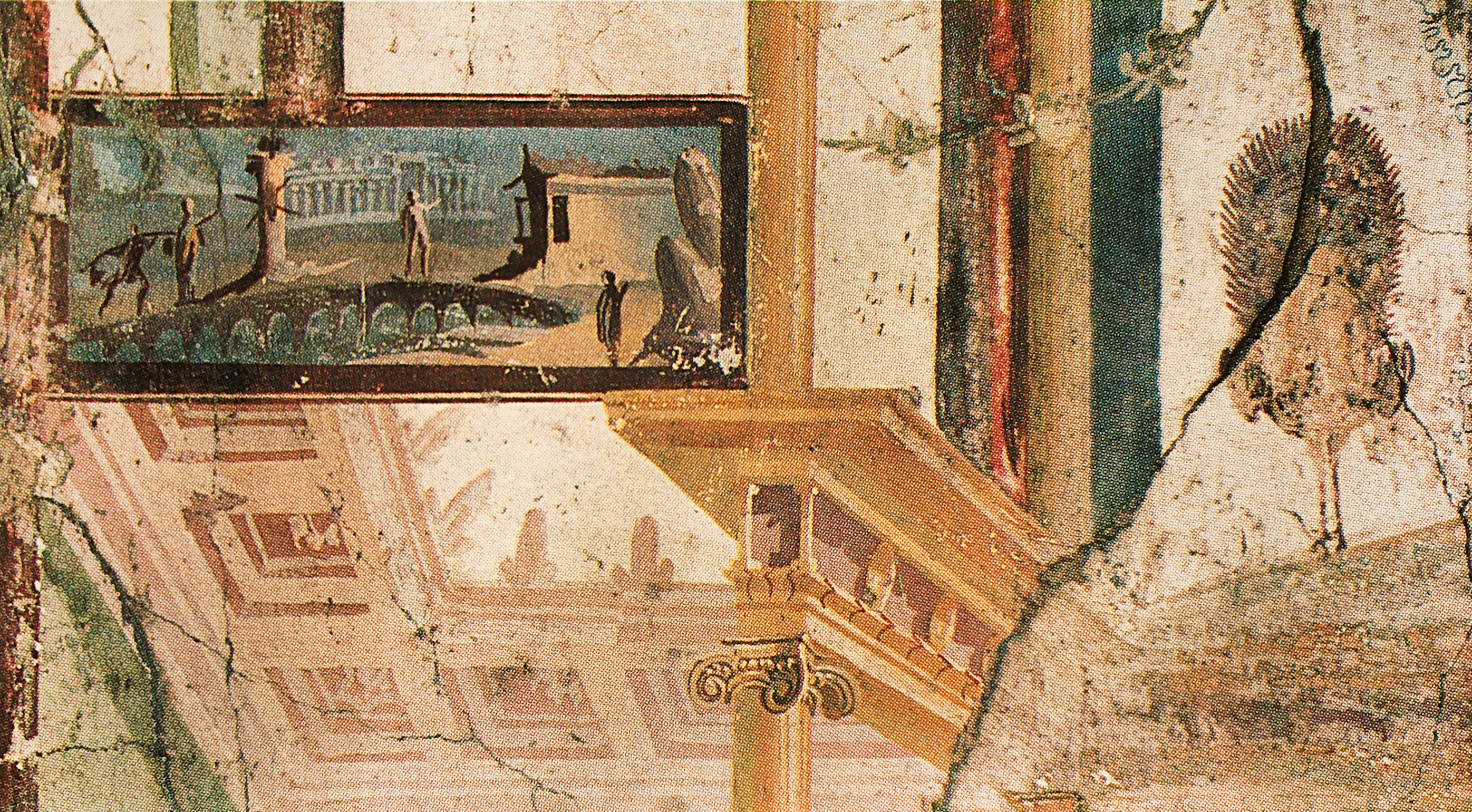 House of the Prince of Naples in Pompeii Plate 164 Exedra South Wall Detail